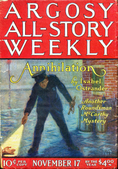 Cover of Argosy All-Story Weekly, November 17, 1923